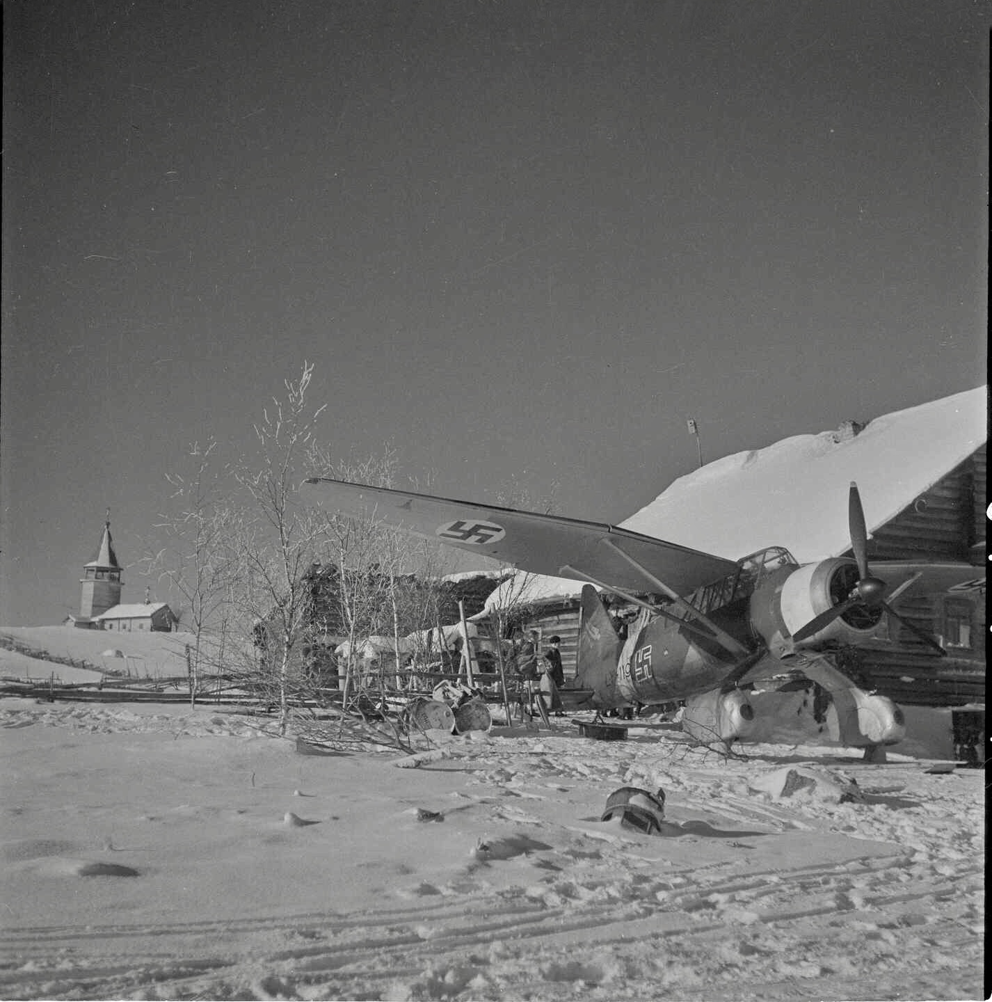 Finnish Westland Lysander -reconnaissance aircraft. Viiksjärvi, 17 February 1942.